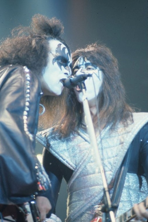 Gene Simmons and Ace Frehley of Kiss performing live in New Haven during the Alive II Tour (1978).NOTEAs first told, this picture was not taken in 1979, as Simmons and Frehley are wearing the stage costumes of Kiss' Love Gun-era (1977-1978). Kiss perfomed in New Haven during the 1979 Dynasty Tour, but their stage appearance had changed by then. Kiss did not perform in New Haven during the tour supporting Love Gun, so this picture was taken during their tour for the live album Alive II. Kiss played in New Haven Coliseum on 28 January, 1978. photo: © edward przydzial - ecpi - the kiss museum news